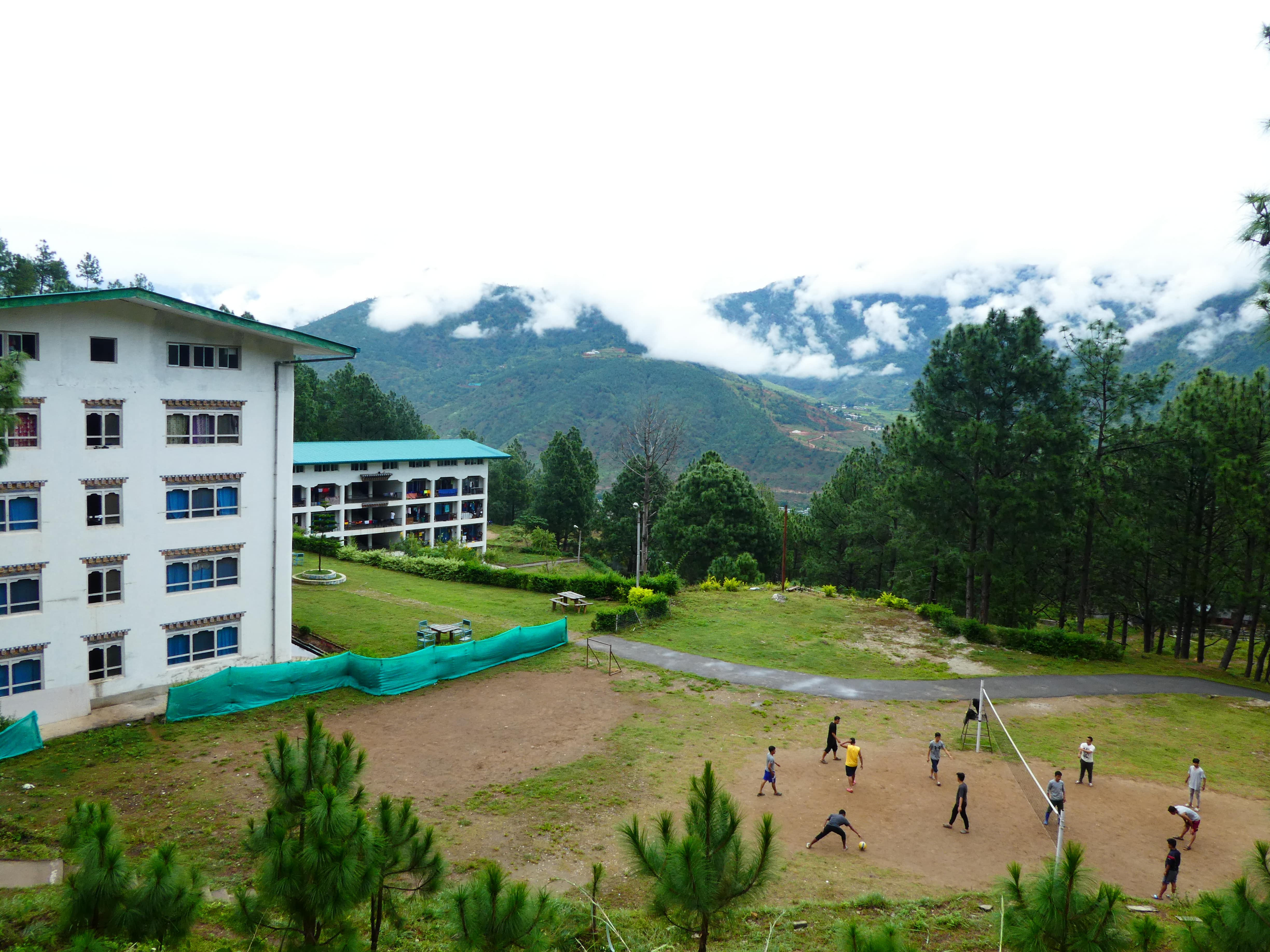 student accommodatio: Boys Hostel